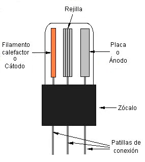 Diagram of Vacuum-Tube Triode